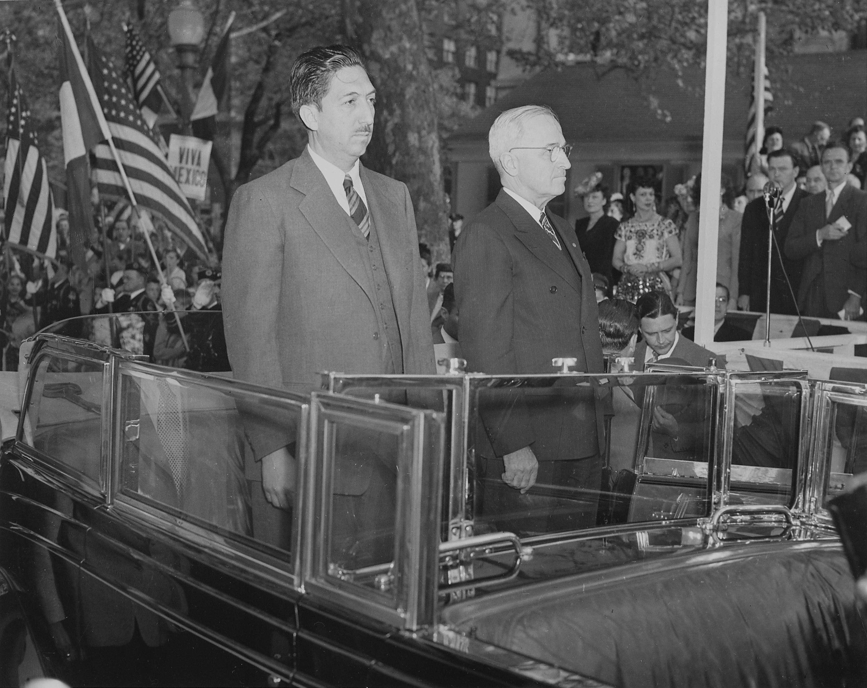 Miguel Alemán Valdés, president of Mexico, and Harry S. Truman, president of the United States, in Washington, D.C.